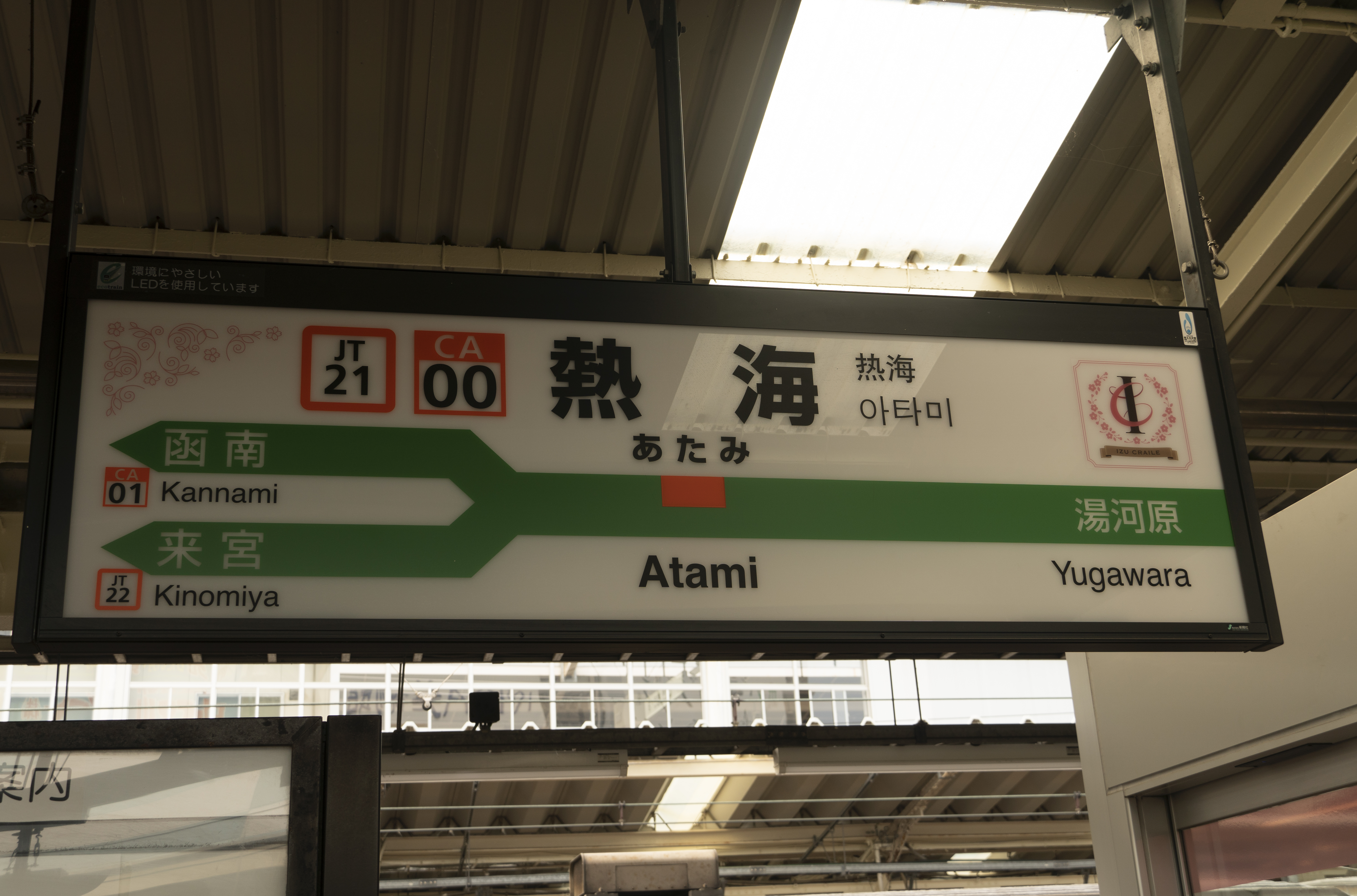 Atami Station Sign (Tokaido Main Line / Ito Line) on Track 2